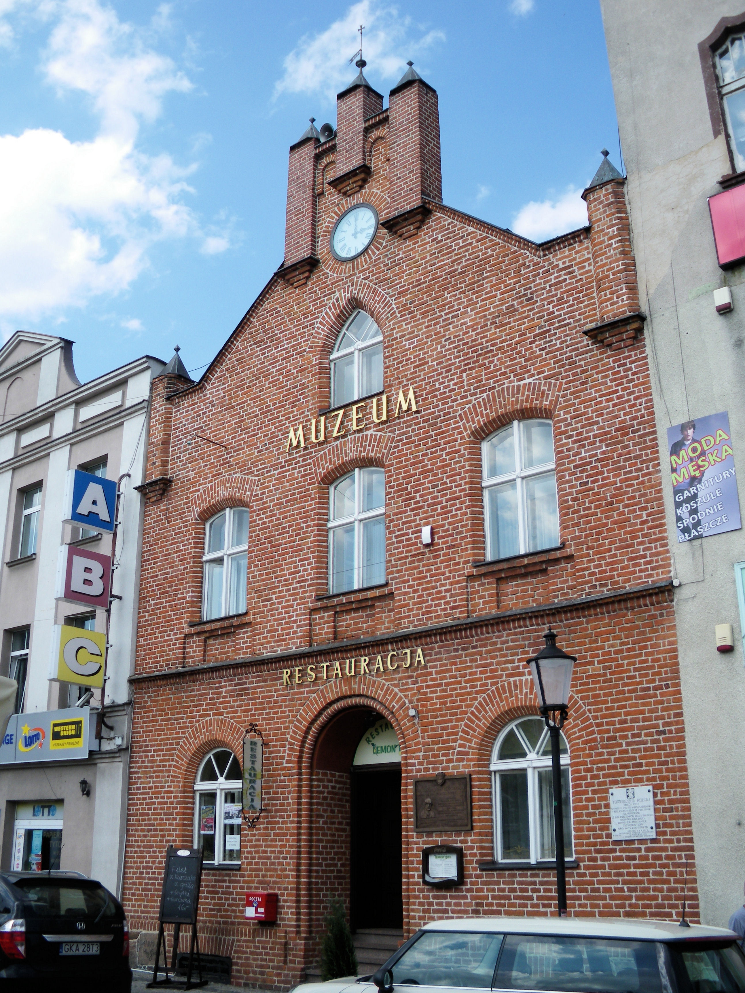 Town hall of XIX century in Kościerzyna at main town square